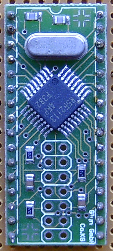 Renesas R8C/TINY 16-Bit Microcontroller